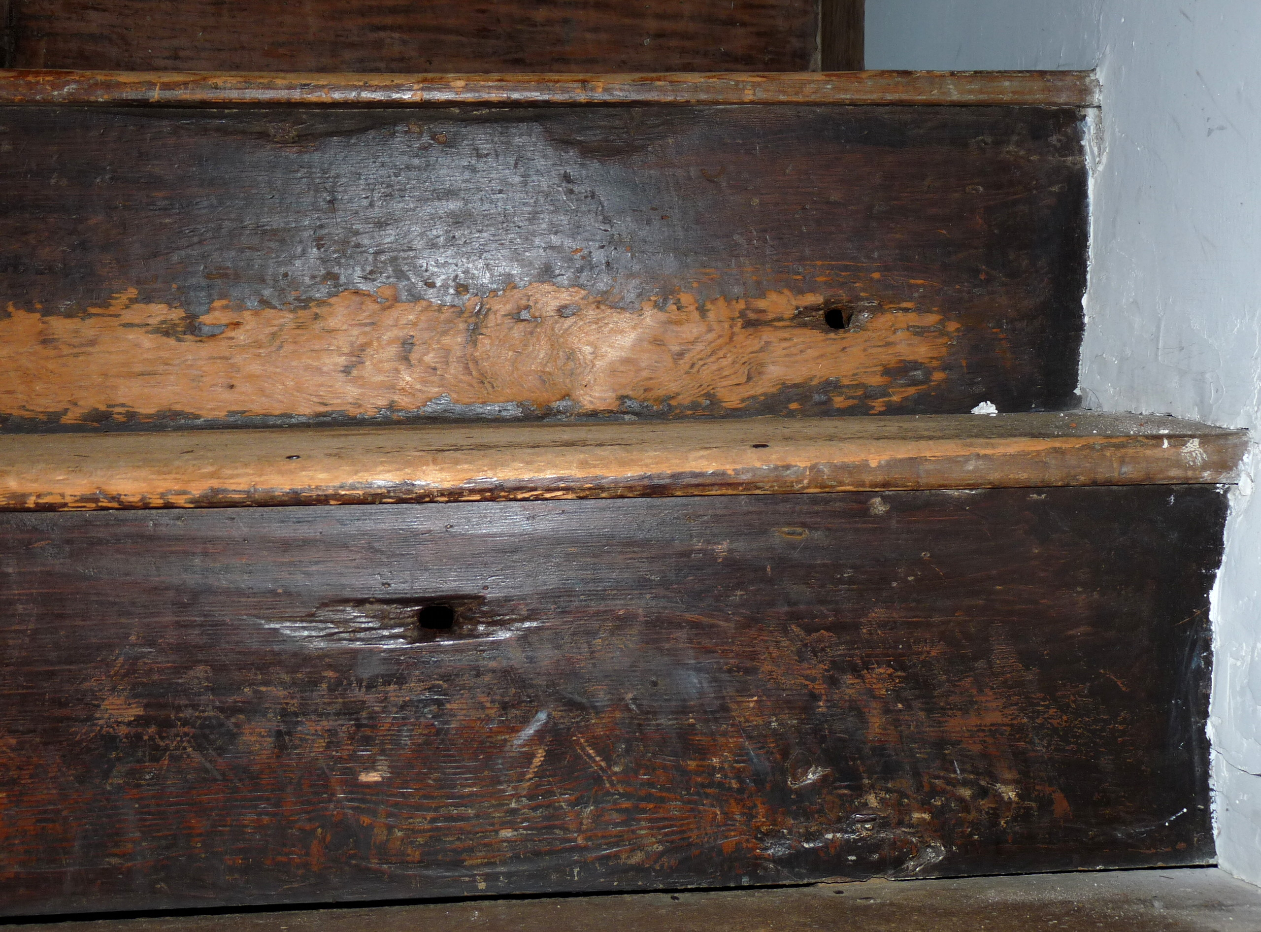 Jason Russell House, Arlington, MA. Bullet holes in the main staircase, from the battle between the minute-men and the British on April 19, 1775.